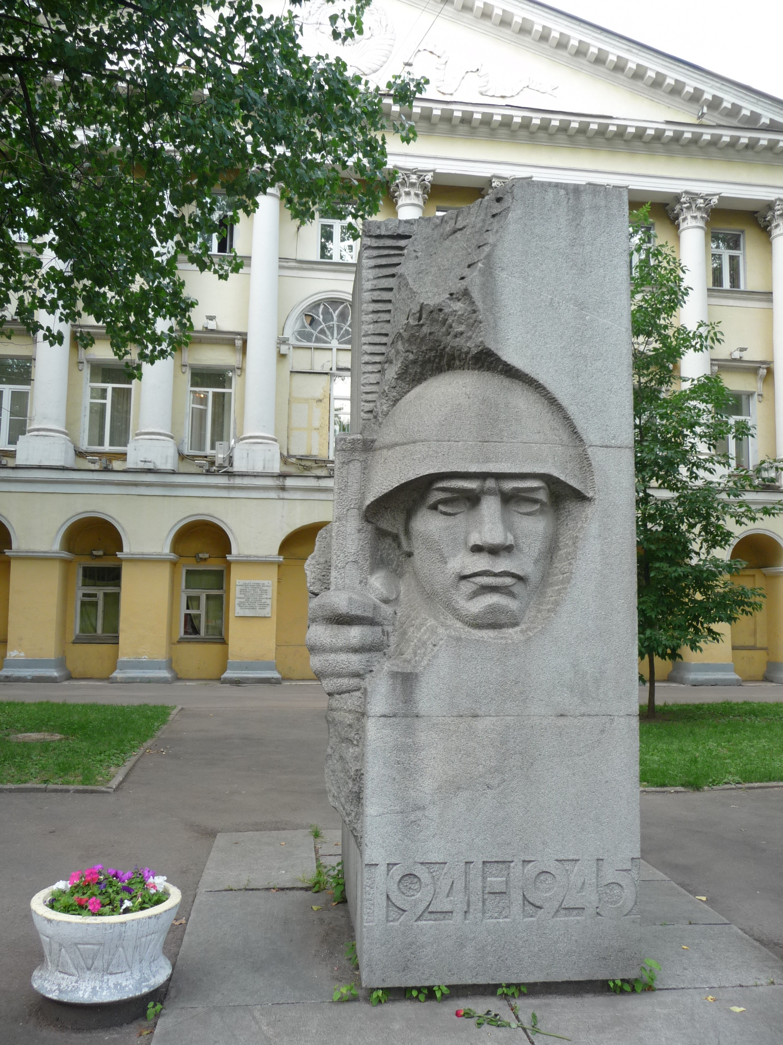 LingUnivMoscow-Monument-p1030326.jpg